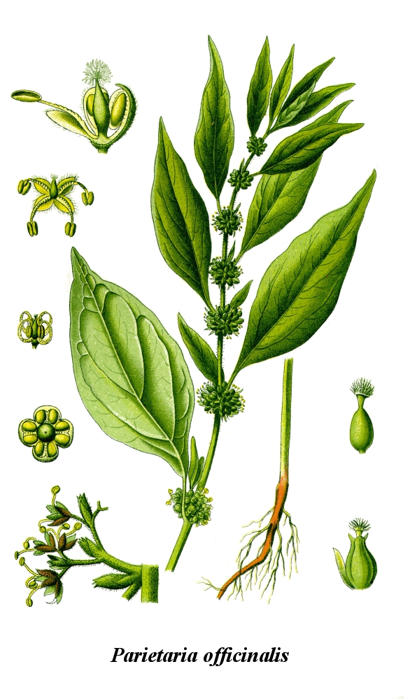 Cleaned version of Image:Illustration_Parietaria_officinalis0.jpg.